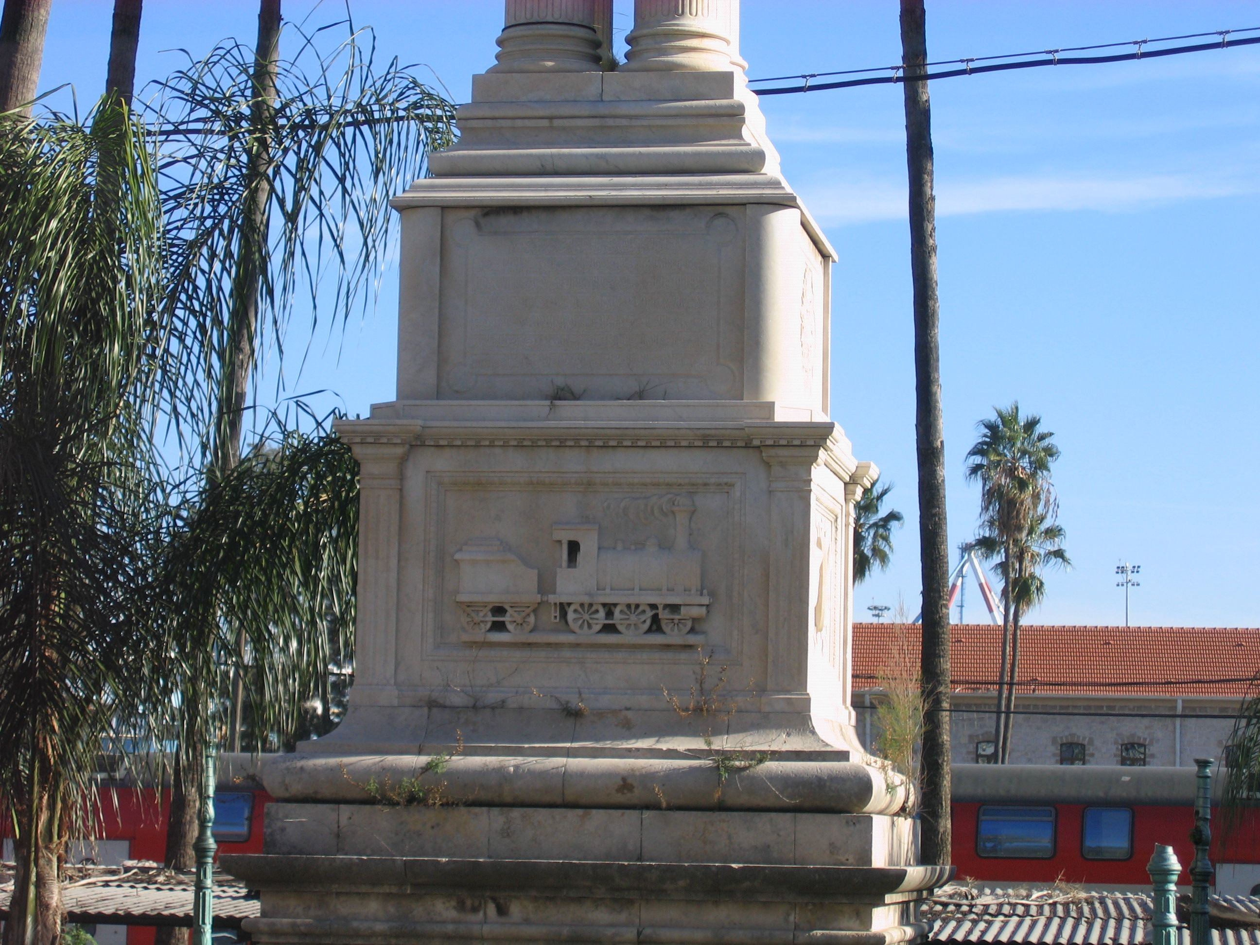 Hejaz Rly. Monument (detail), Haifa